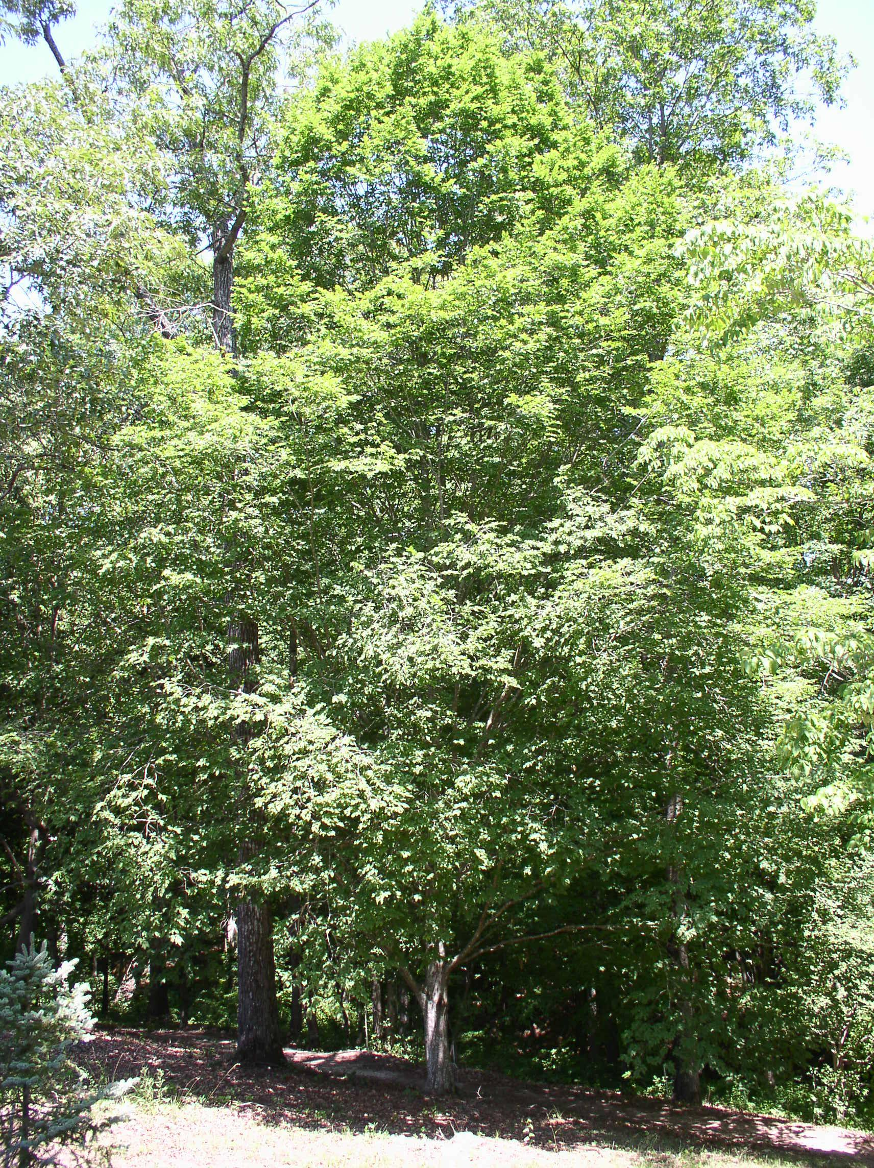 European hornbeam at the SC Botanical Garden